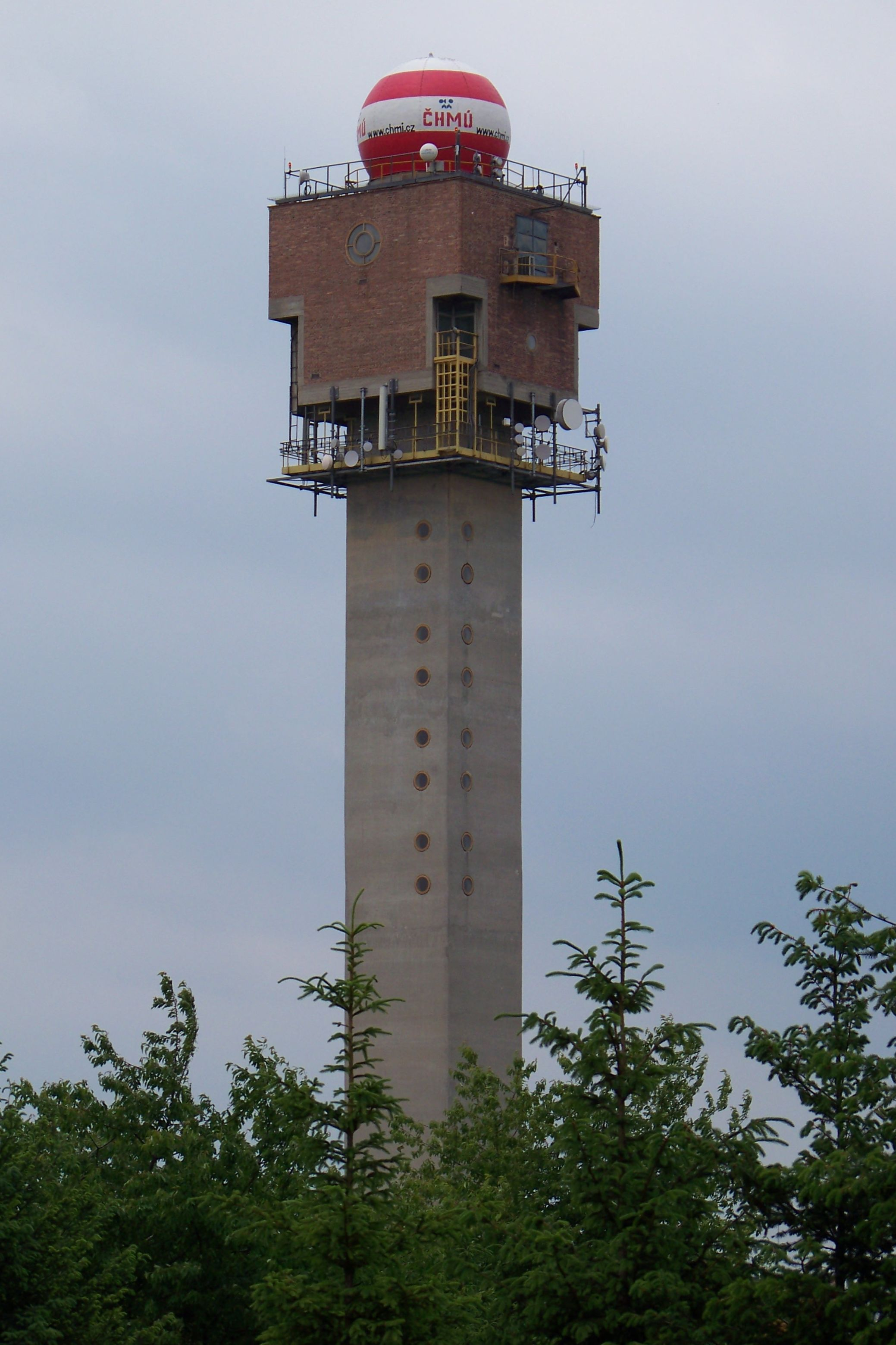 Prague-Kamýk, the Czech Republic. A meteorological observatory, seen from Zelenkova street.